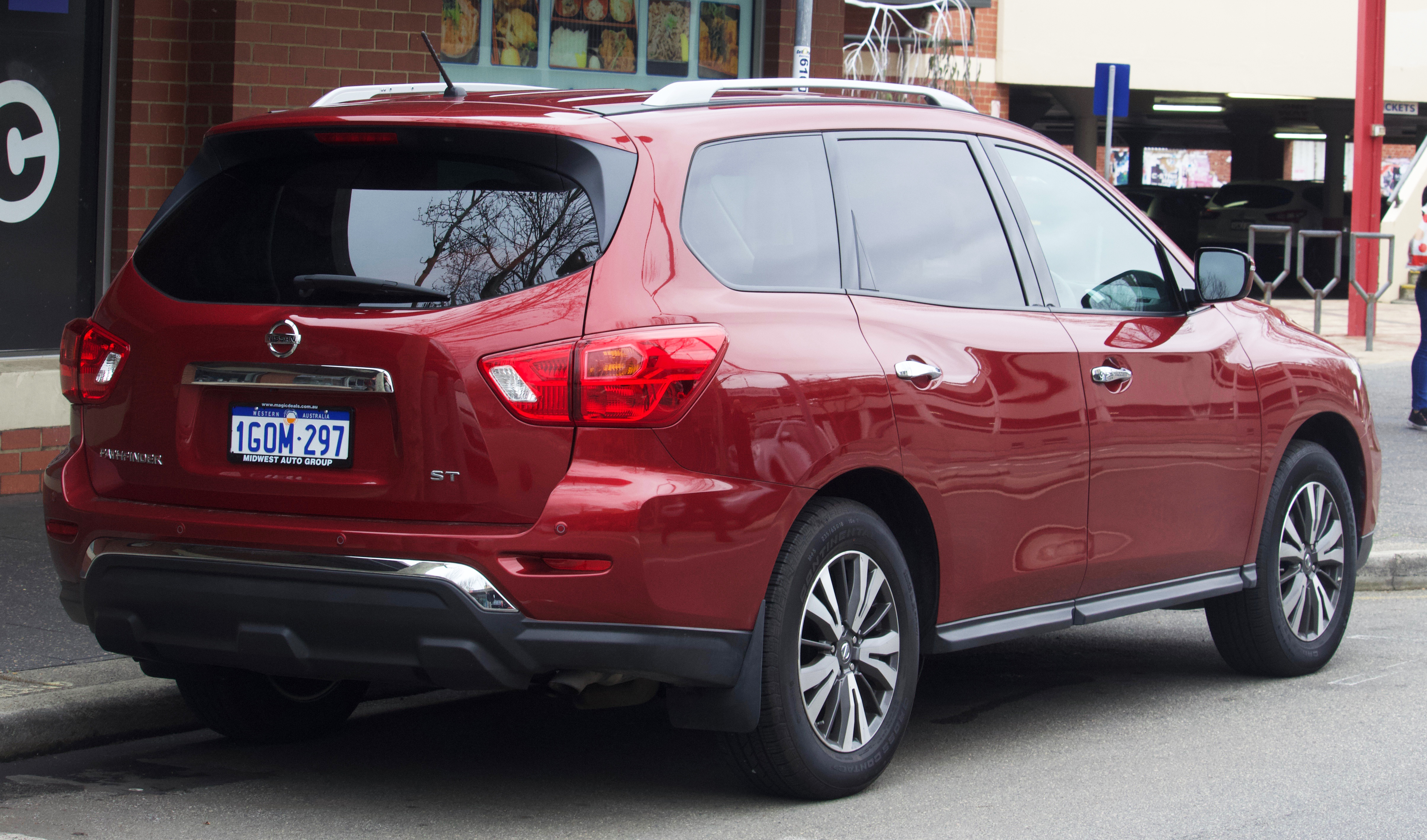 2018 Nissan Pathfinder (R52 MY18) ST 2WD wagon. Photographed in Fremantle, Western Australia, Australia.